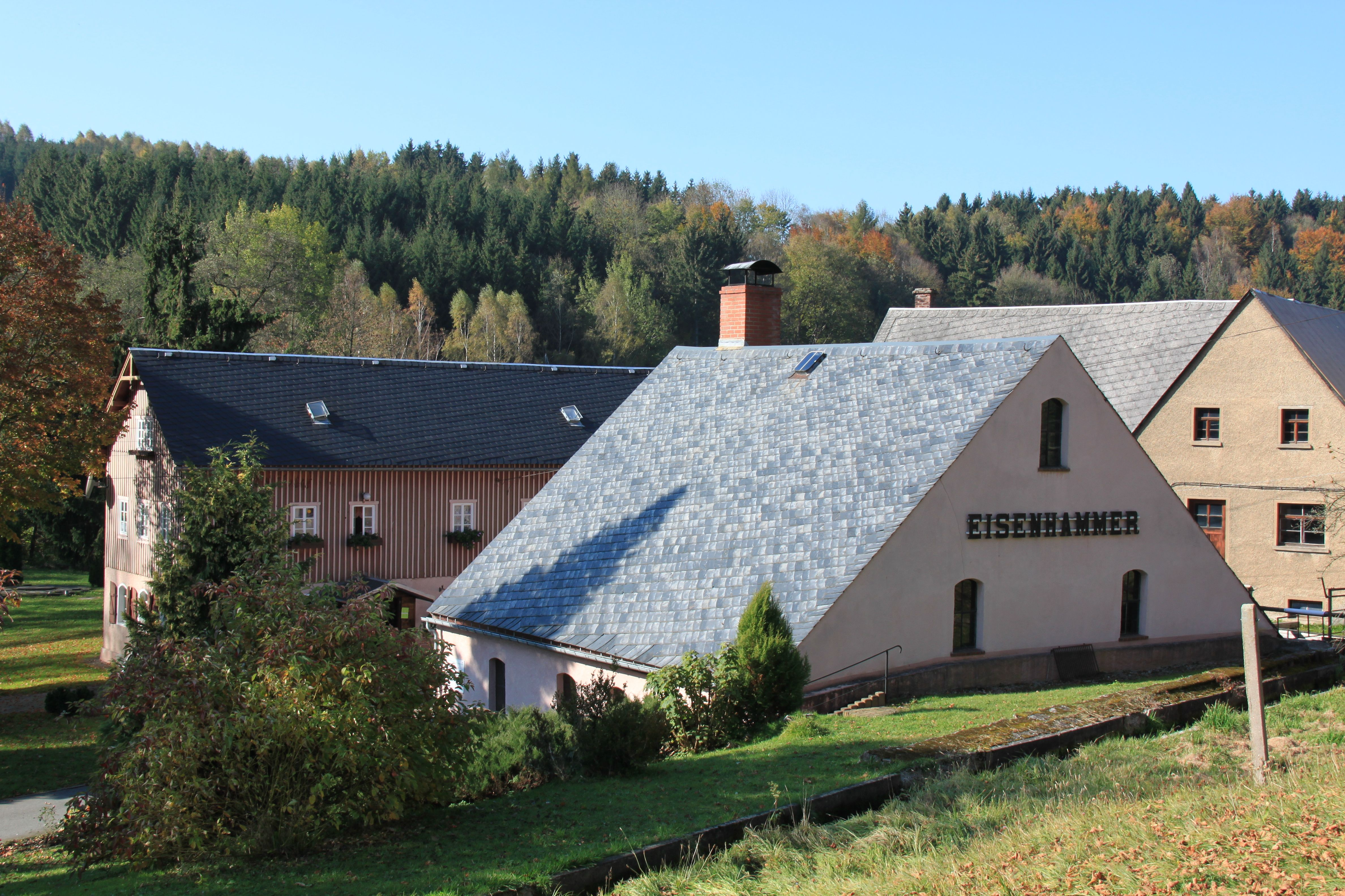 This image shows the historic ironworks in Dorfchemnitz in the Erzgebirge. The ironworks was built 1567.